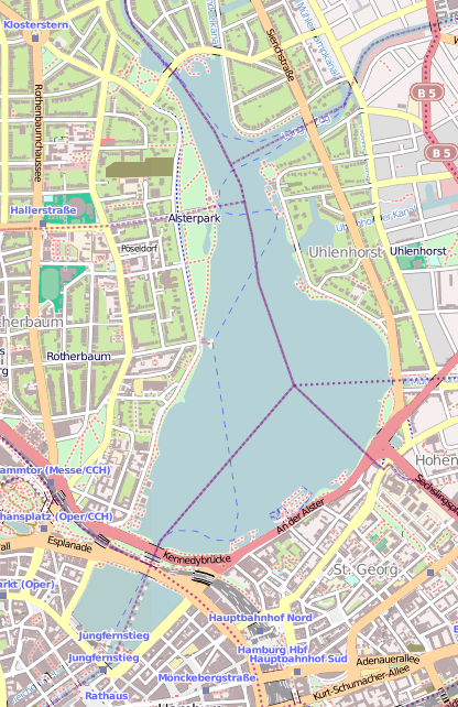 osm-crop of Außen- and Binnenalster in Hamburg This map may be incomplete, and may contain errors. Don't rely solely on it for navigation.